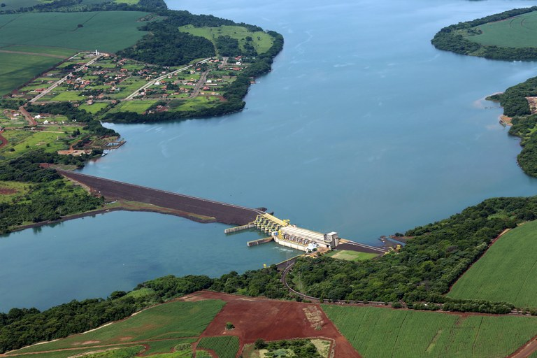 Usina Hidrelétrica de Igarapava-SP